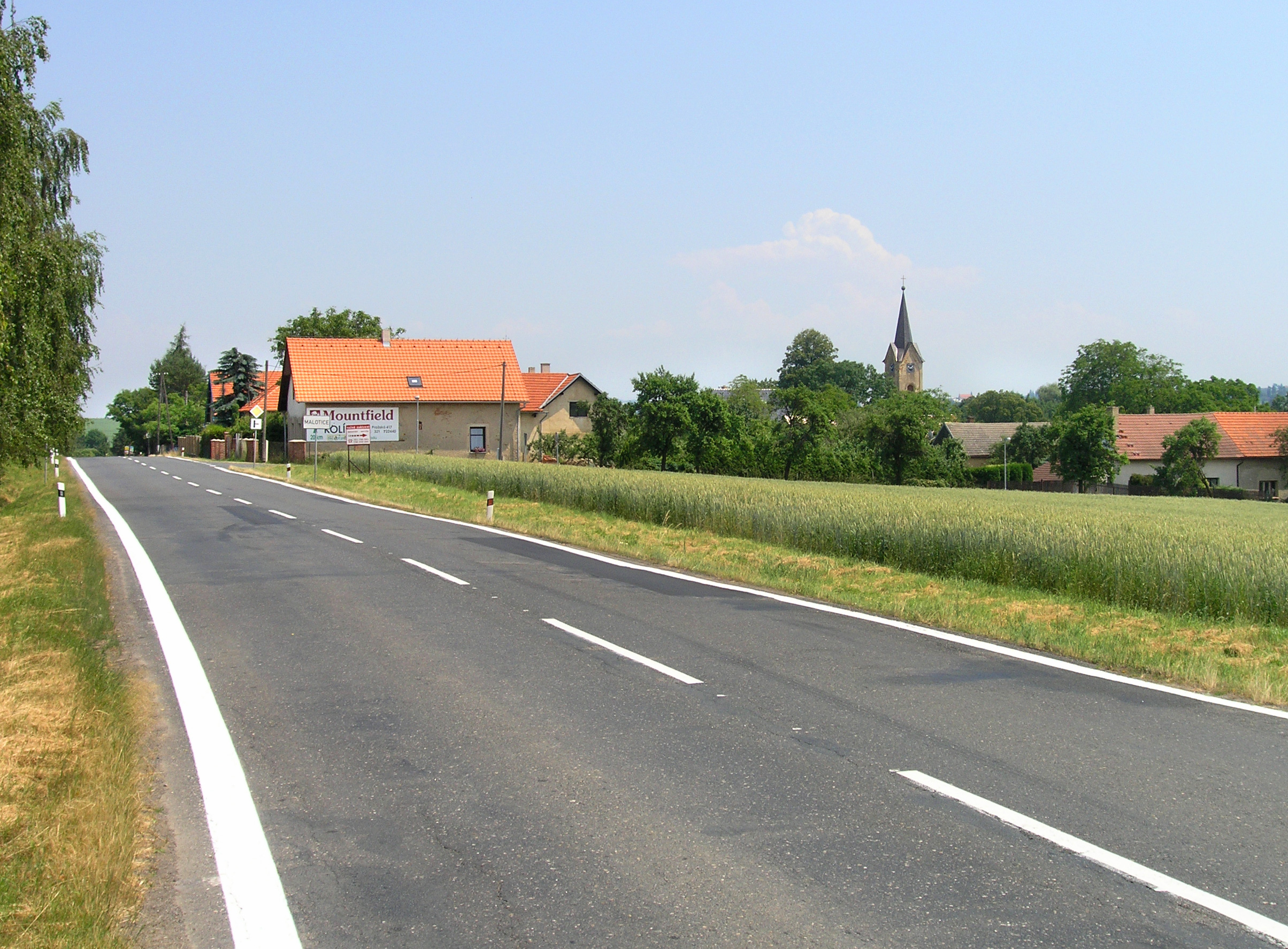 West view of Malotice, Czech Republic